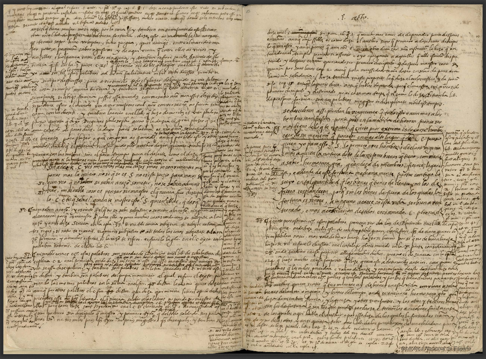 Celestina comentada, BNE MSS/17631, ff. 27v-28r (Biblioteca Digital Hispánica)